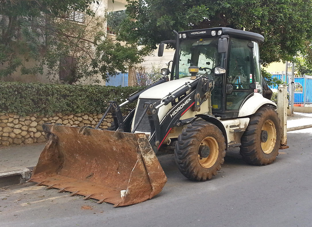 Hidromek backhoe loader in Israel